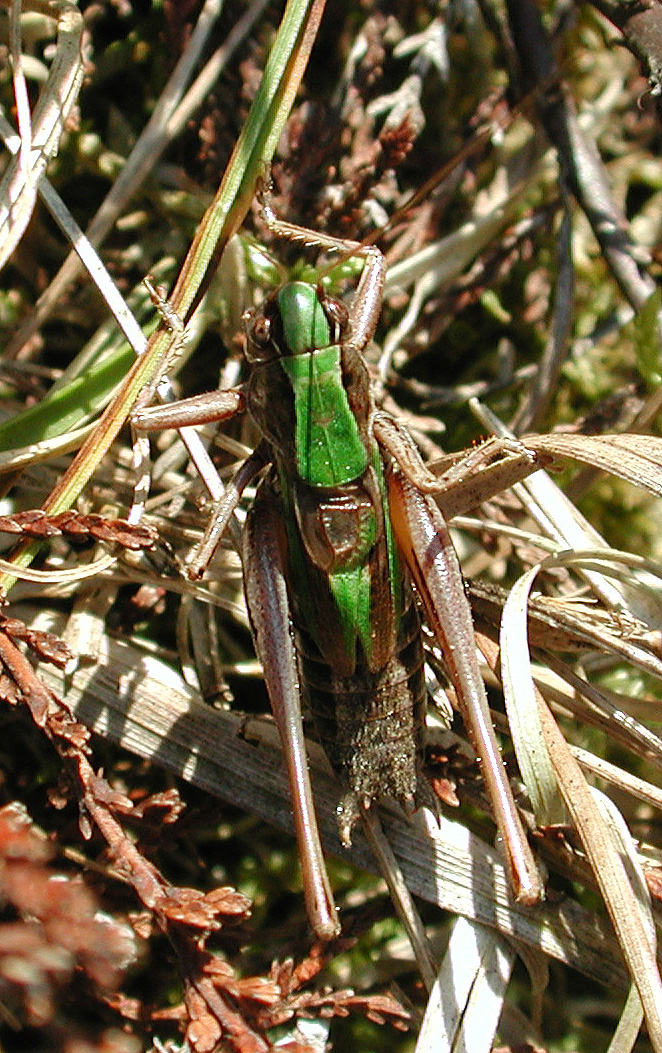 Metrioptera brachyptera, male, Döhle, Germany